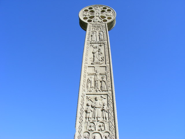 St Augustines Cross The cross stands on what is traditionally thought to have been the site of St Augustine's landing on the shores of England in AD 597. Accompanied by 30 followers, Augustine is said to have held a mass here before moving on.